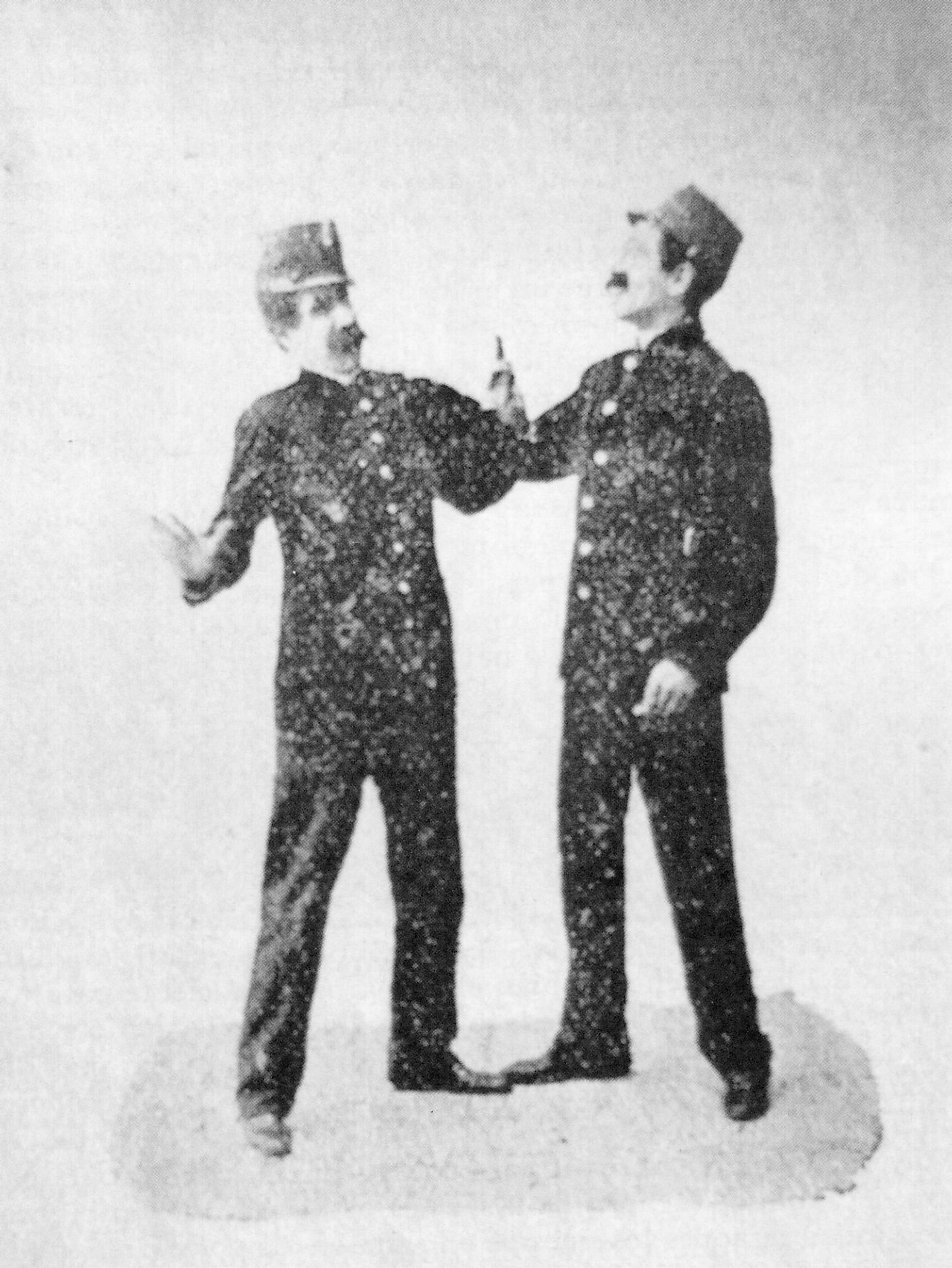 Scenes of the first representation of 'La verbena de la Paloma', on February 17, 1894, at the teatro Apolo in Madrid.